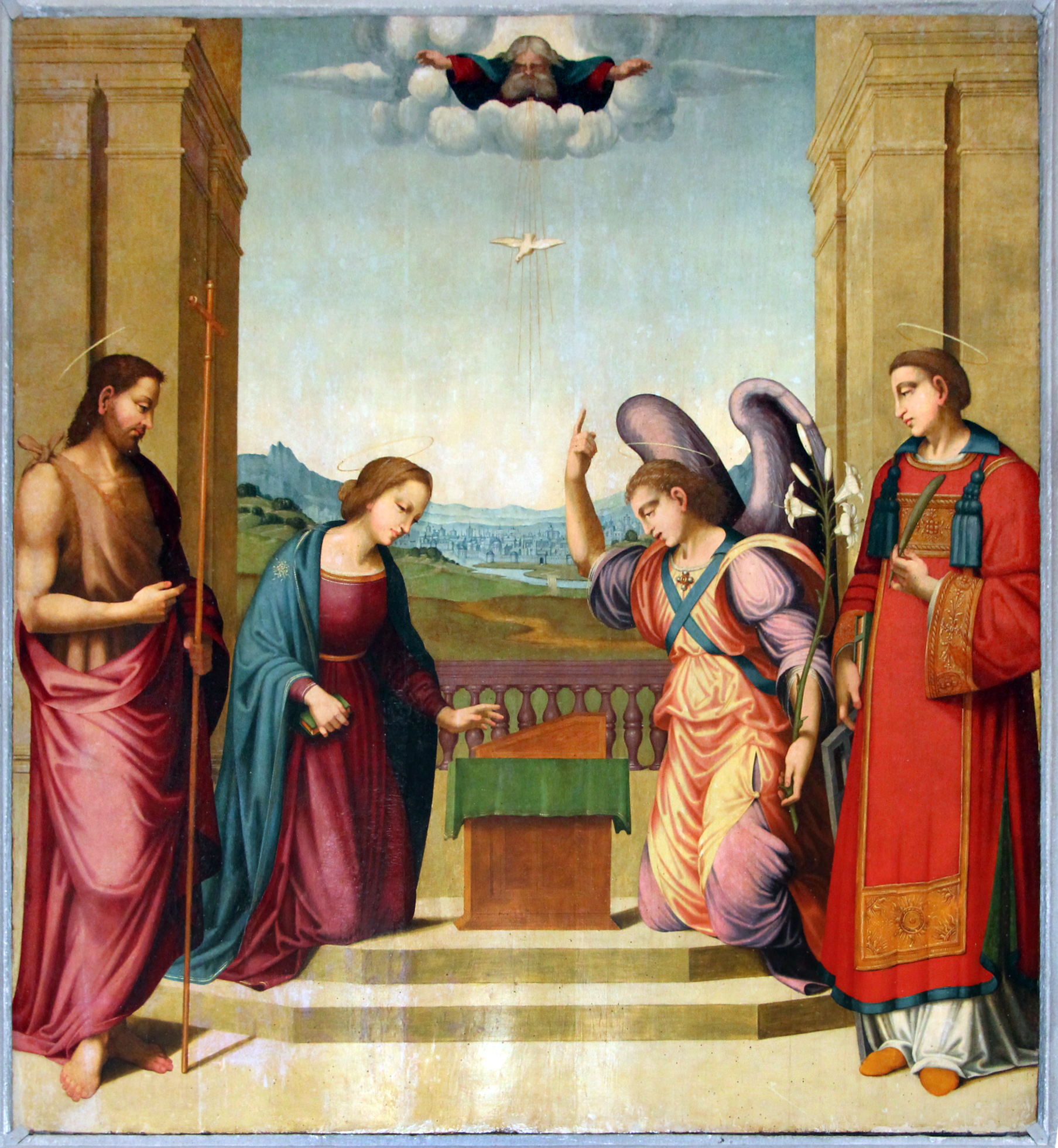 San Lorenzo alle Rose